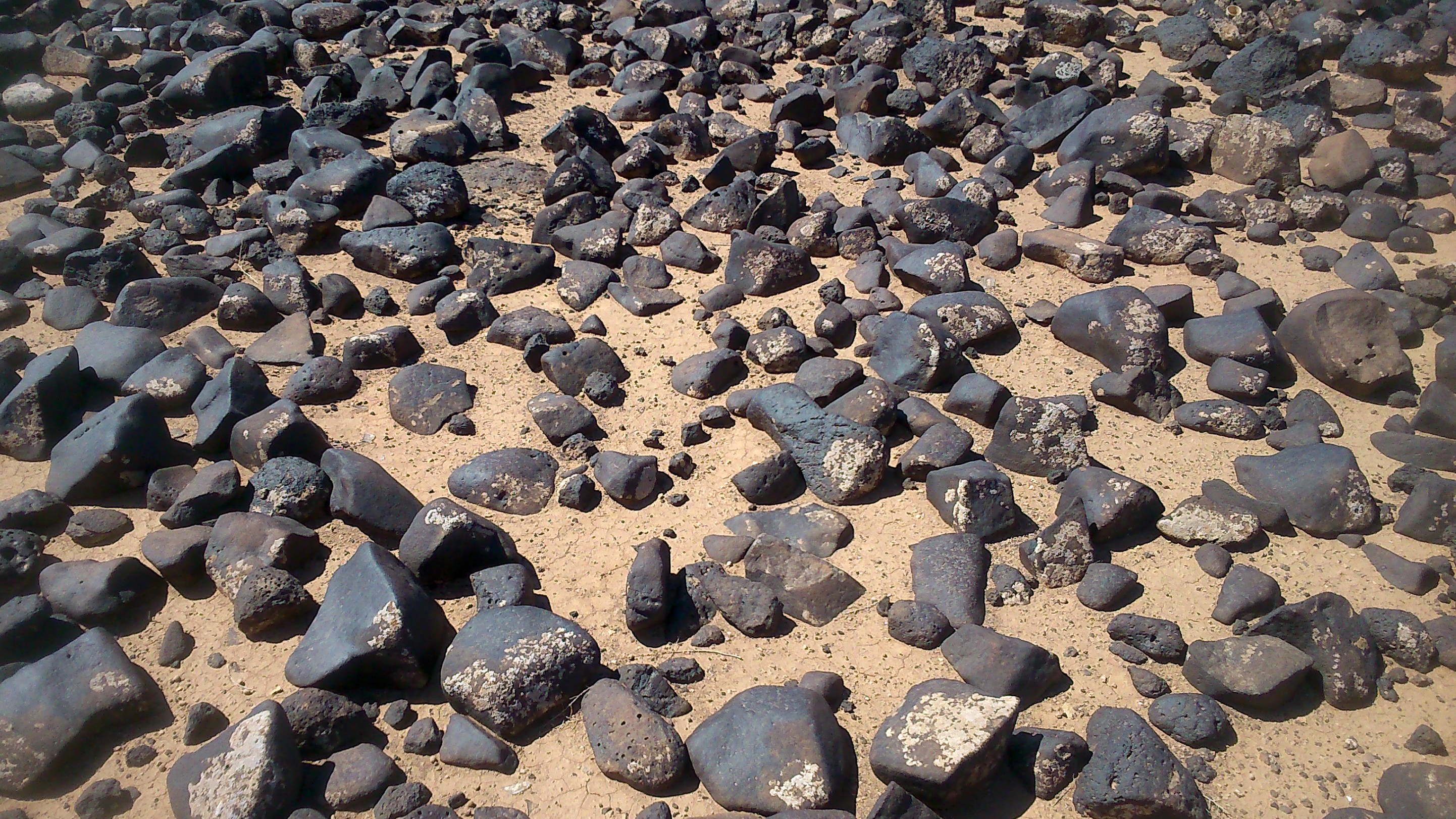 Photograph of basalt desert pavement in the Black Desert, eastern Jordan.